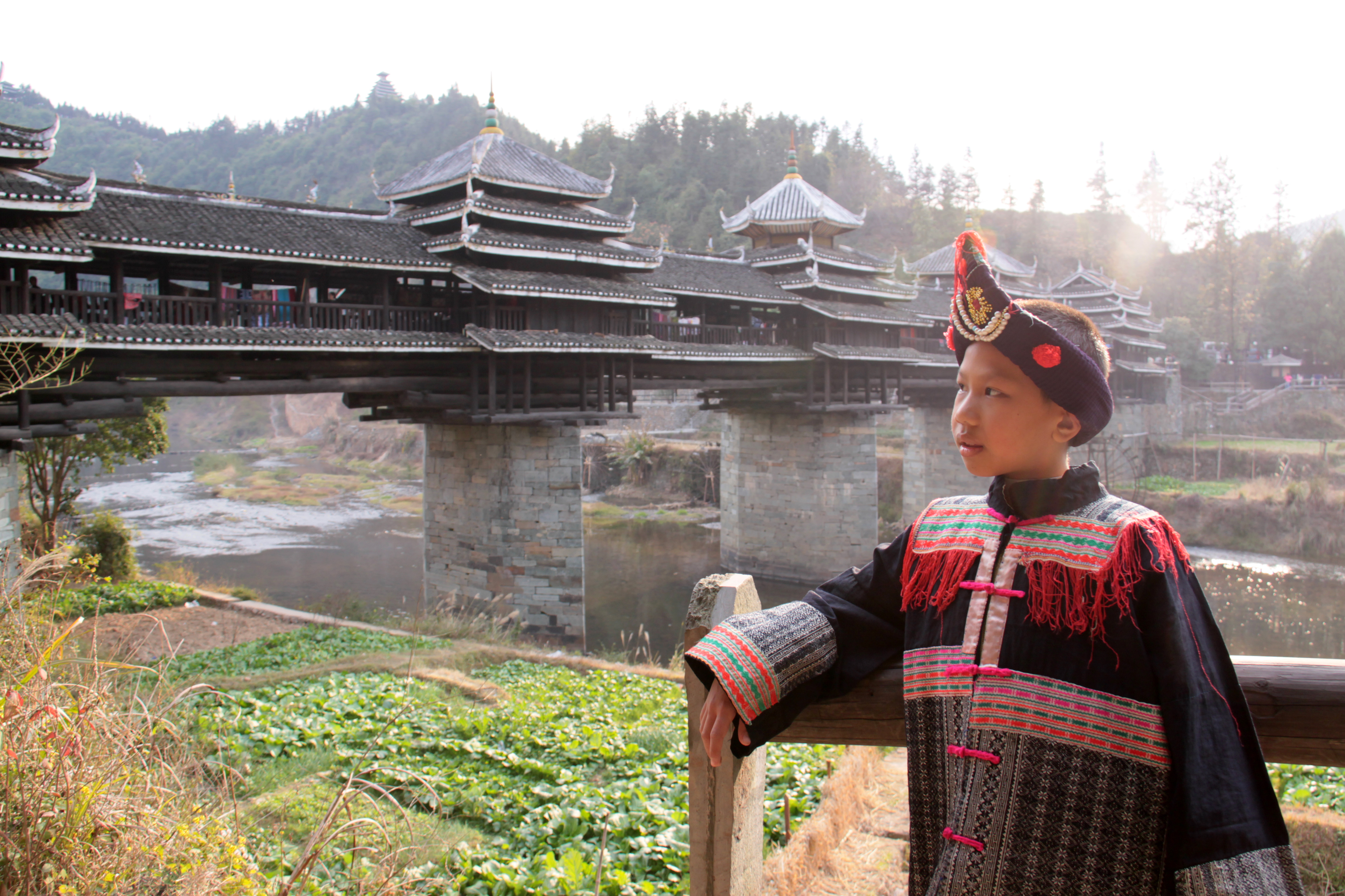 china, Guizhou, wind bridge dhong in changyang